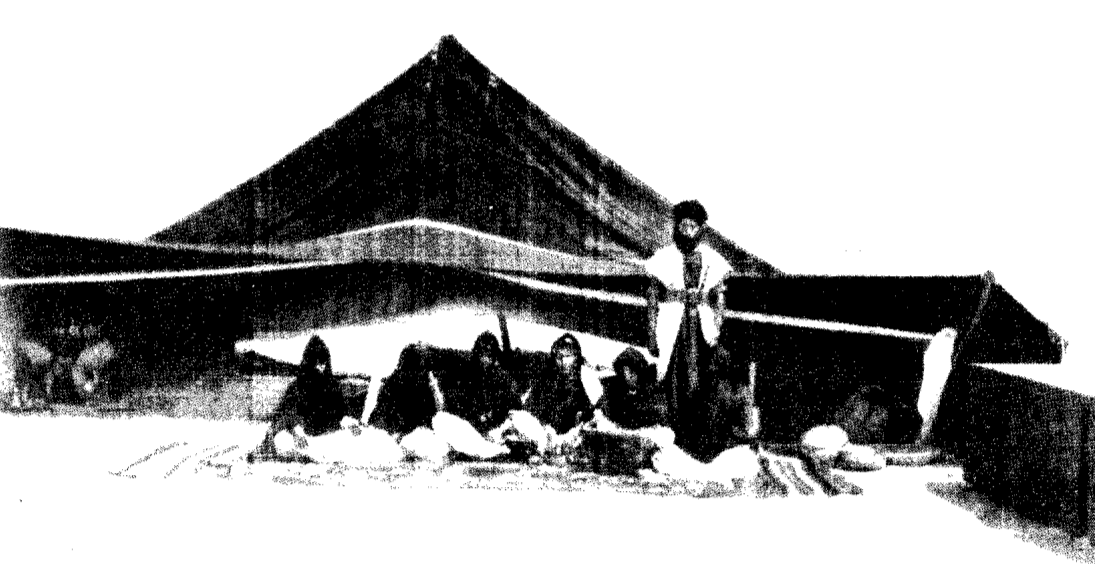 Saharan family from Spanish Sahara